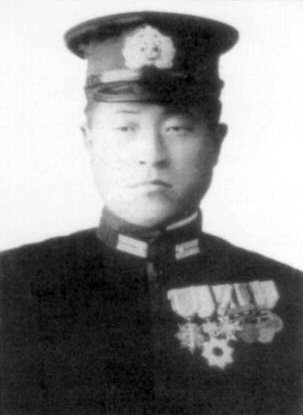 Lt.Commander Mochitsura Hashimoto of the Japanese Imperial Navy. Date unknown. Originally used in: 広島原爆とサメ